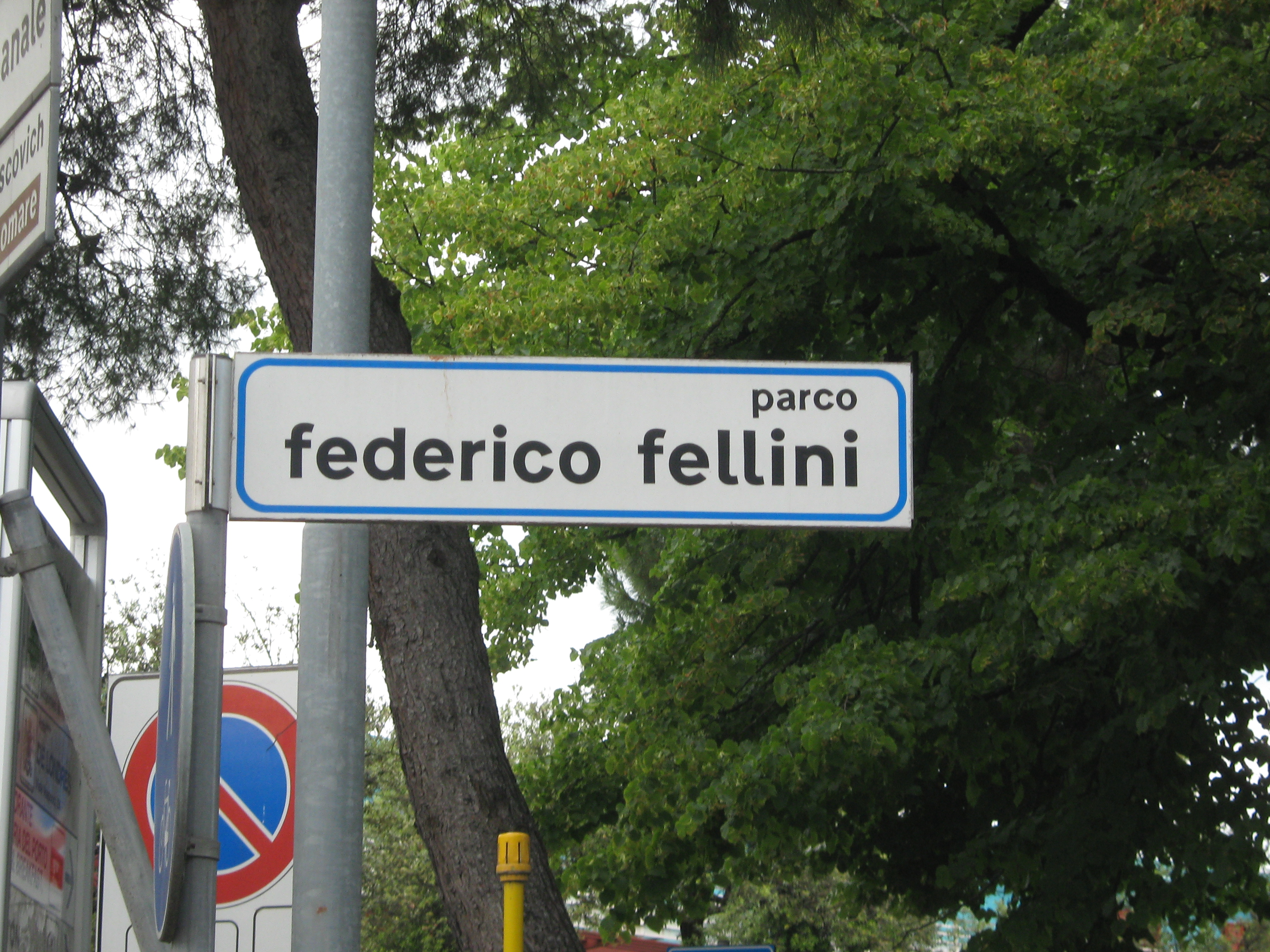 Federico Fellini park in Rimini